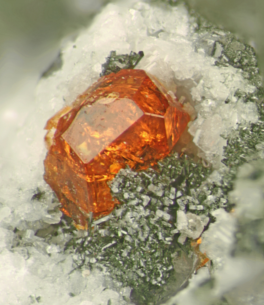 FOV 2.4 x 2.9 mm. Found August 1997. MOB coll. This specimen was confirmed at the Canadian Museum of Nature. for more information. The color is more orange than red. But it is impossible to visually distinguish khomyakovite from manganokhomyakovite, ferrokentbrooksite or other eudialyte group members at MSH. The environment is igneous breccia rather than a miarolitic cavity. From: Poudrette quarry, Mont Saint-Hilaire, La Vallée-du-Richelieu RCM, Montérégie, Québec, Canada.